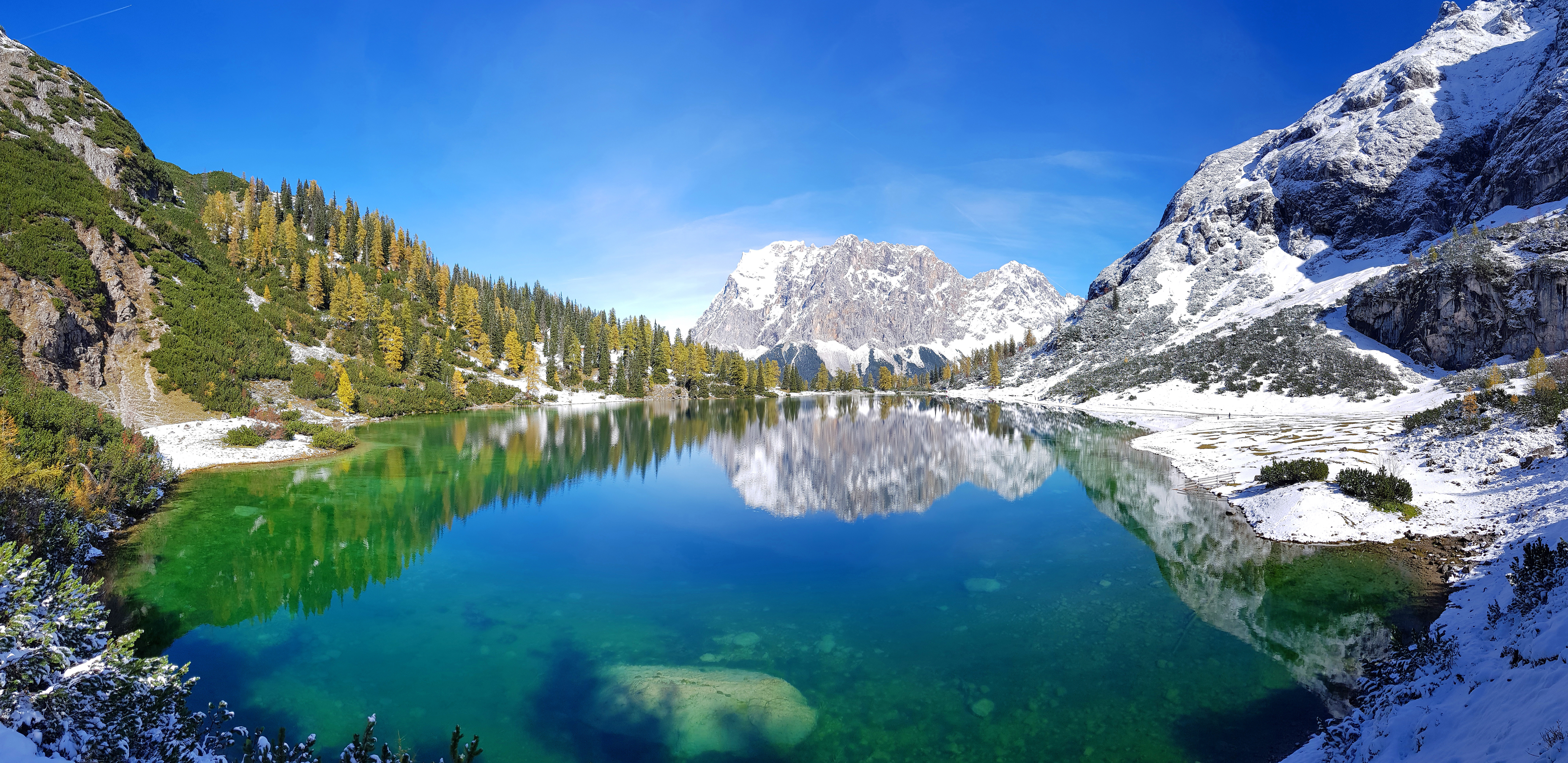 The lake Seebensee in Austria on a sunny day in October 2017, with the wall of the steep mountains in the South of the top of peak Zugspitze (Zugspitzmassiv is in the middle of the photo) and in the South of plain Zugspitzplatt, seen here from South.